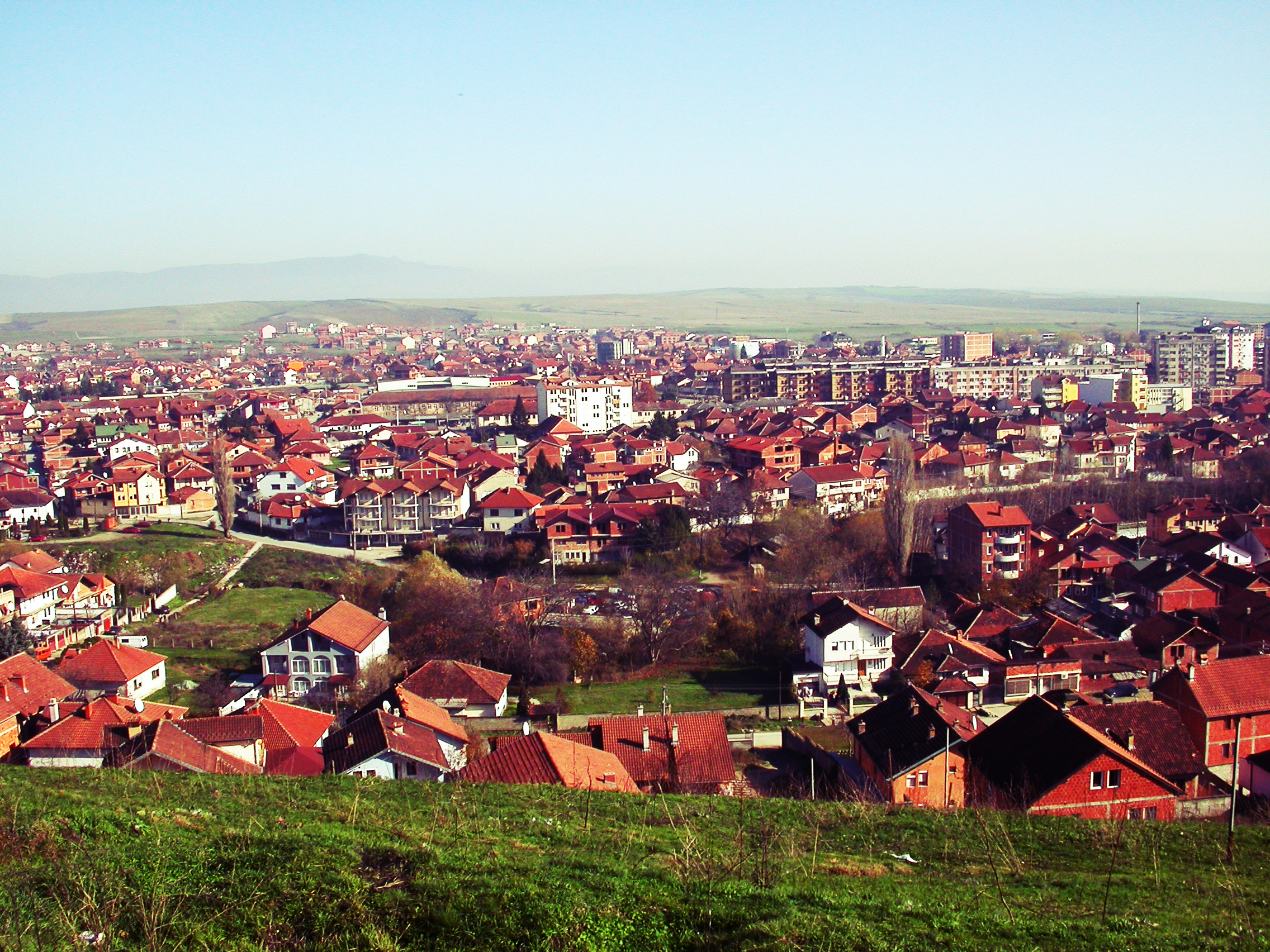 3rd biggest city in Kosovo, population is estimated at 150,000 (2007). English Pronunciation Ja-ko-vi-ca .